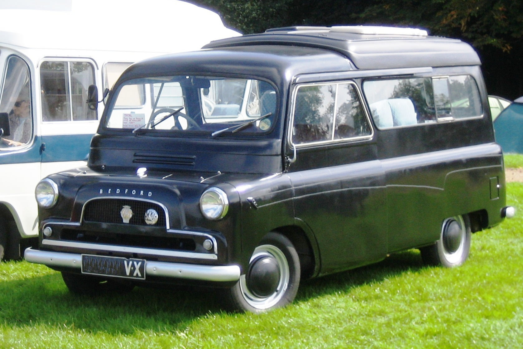 Bedford CA after the first facelift but before the second one. This was the period when the Bedford CA dominated its sector, the Ford transit being not yet available and the UK manufactured competitors mostly being 'forward control' - a euphemism for having their engines just behind the front seats, where Bedford owners were able to store their merchandise or (in the case of minibuses) passengers. This one is a Dormobile conversion, but since everything has been sprayed in a distinctly non contemporay shade of black, the dormobile features are hard to pick out